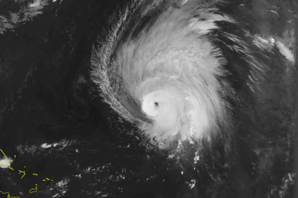 Hurricane Erika south-southeast of Bermuda on September 9 as a weakening Category 2 hurricane.